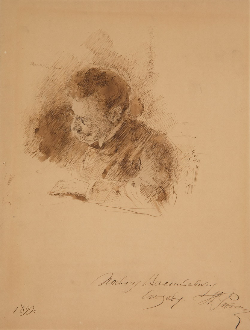 Male portrait